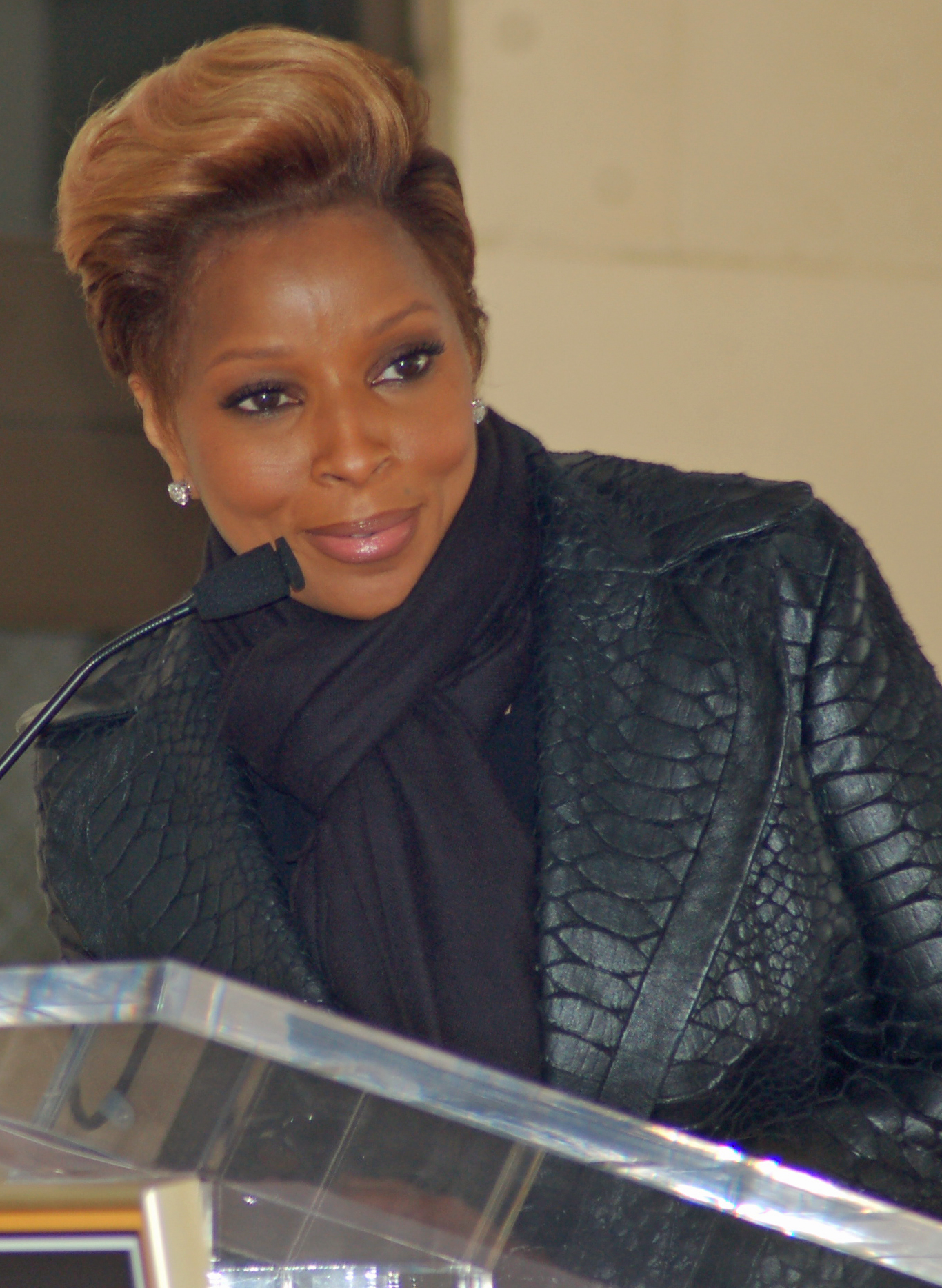 Mary J. Blige at a ceremony for Doug Morris to receive a star on the Hollywood Walk of Fame.